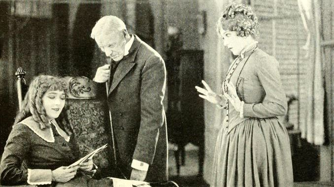 Still from the film Little Lord Fauntleroy (1921) with Mary Pickford and Joseph J. Dowling, on page 101 of Peter Milne, Motion Picture Directing; The Facts and Theories of the Newest Art (1922). The still shows the use of double exposure in the film.